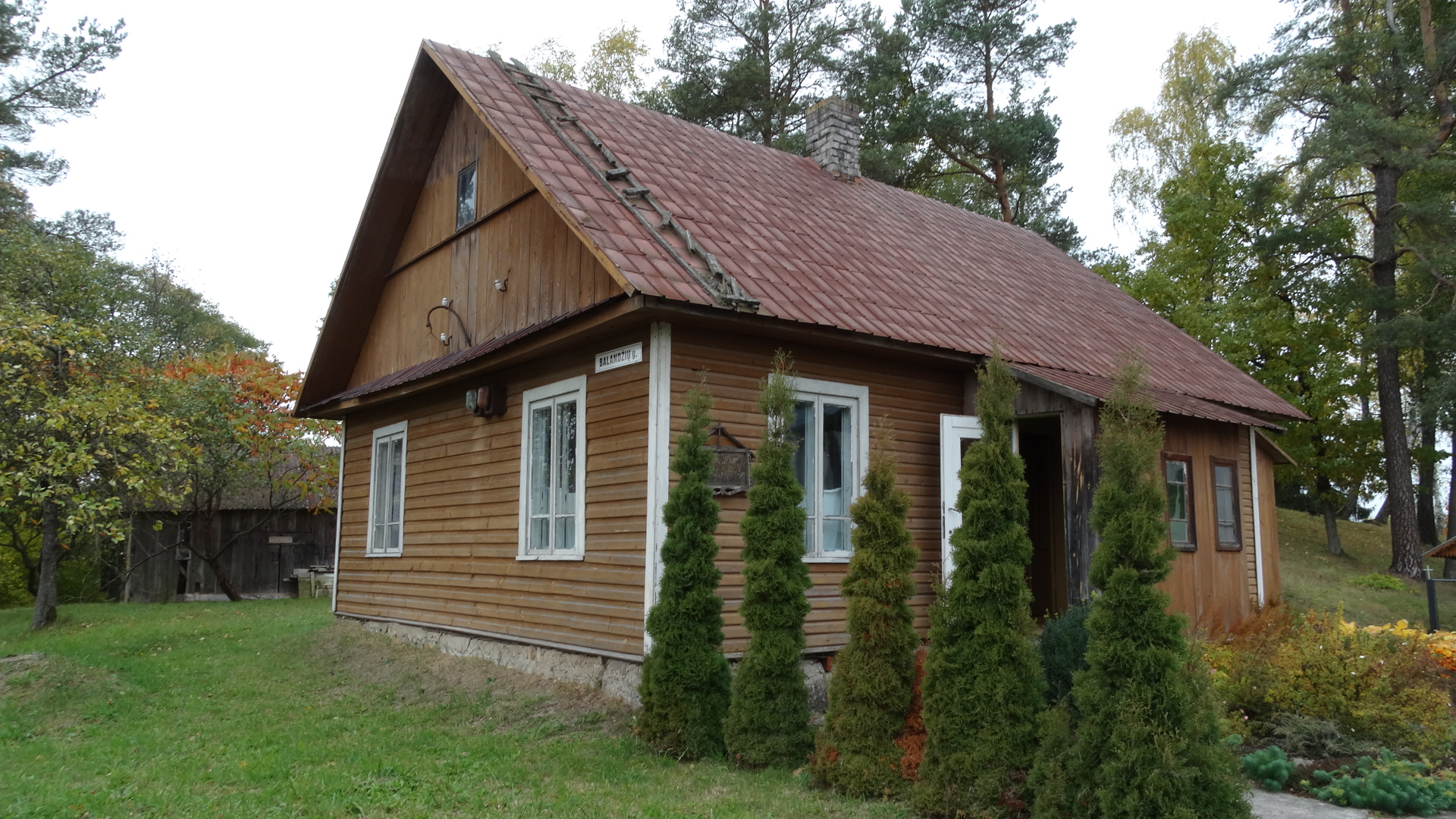 Museum of J. Reitelaitis, Krikštonys, Lazdijai district, Lithuania